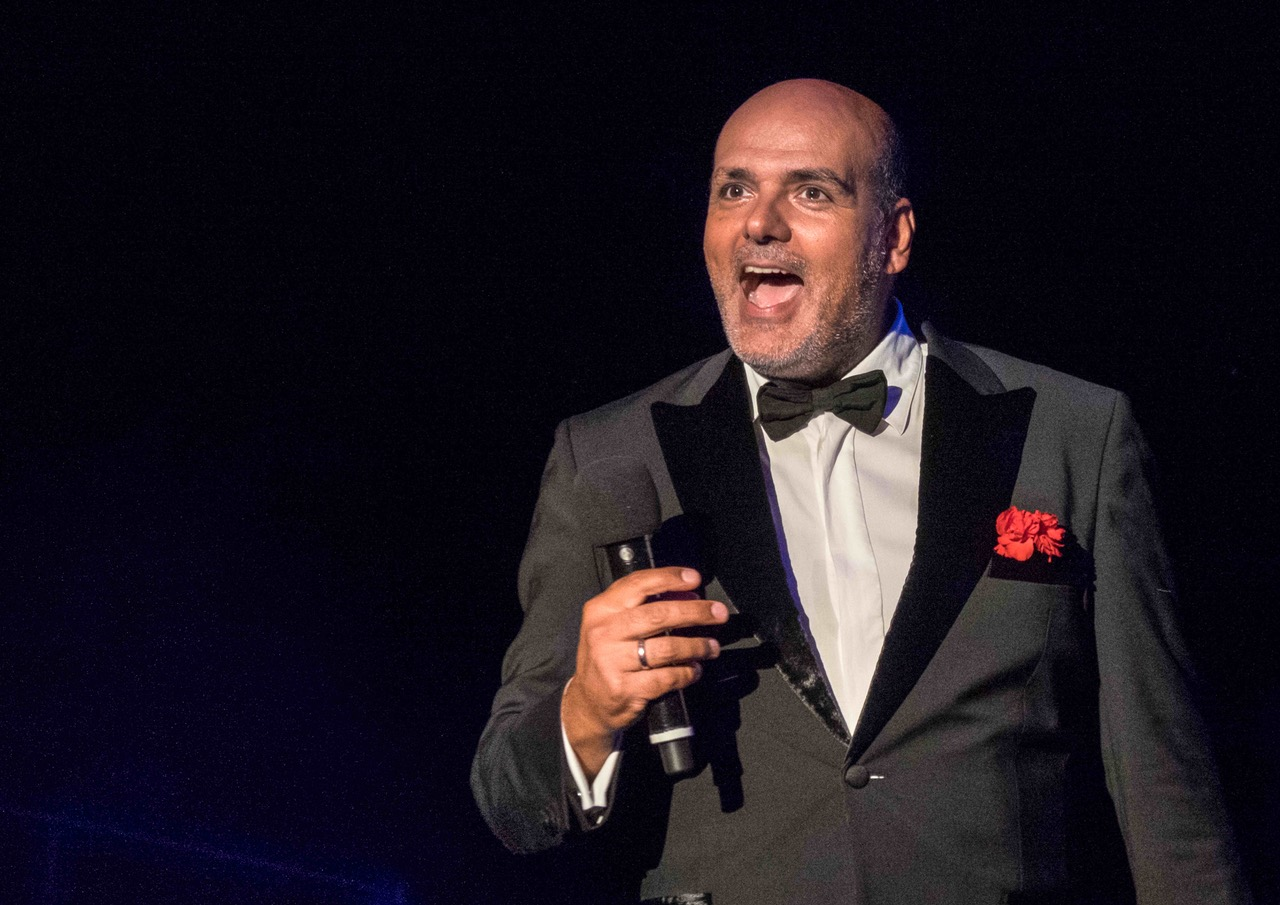 Jay Alexander, German tenor on stage